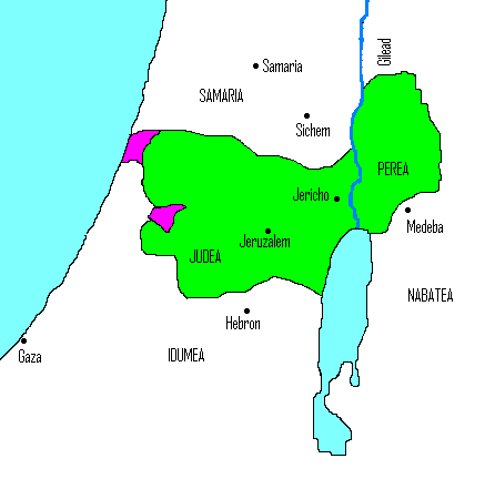 Judea onder Simon Maccabeüs